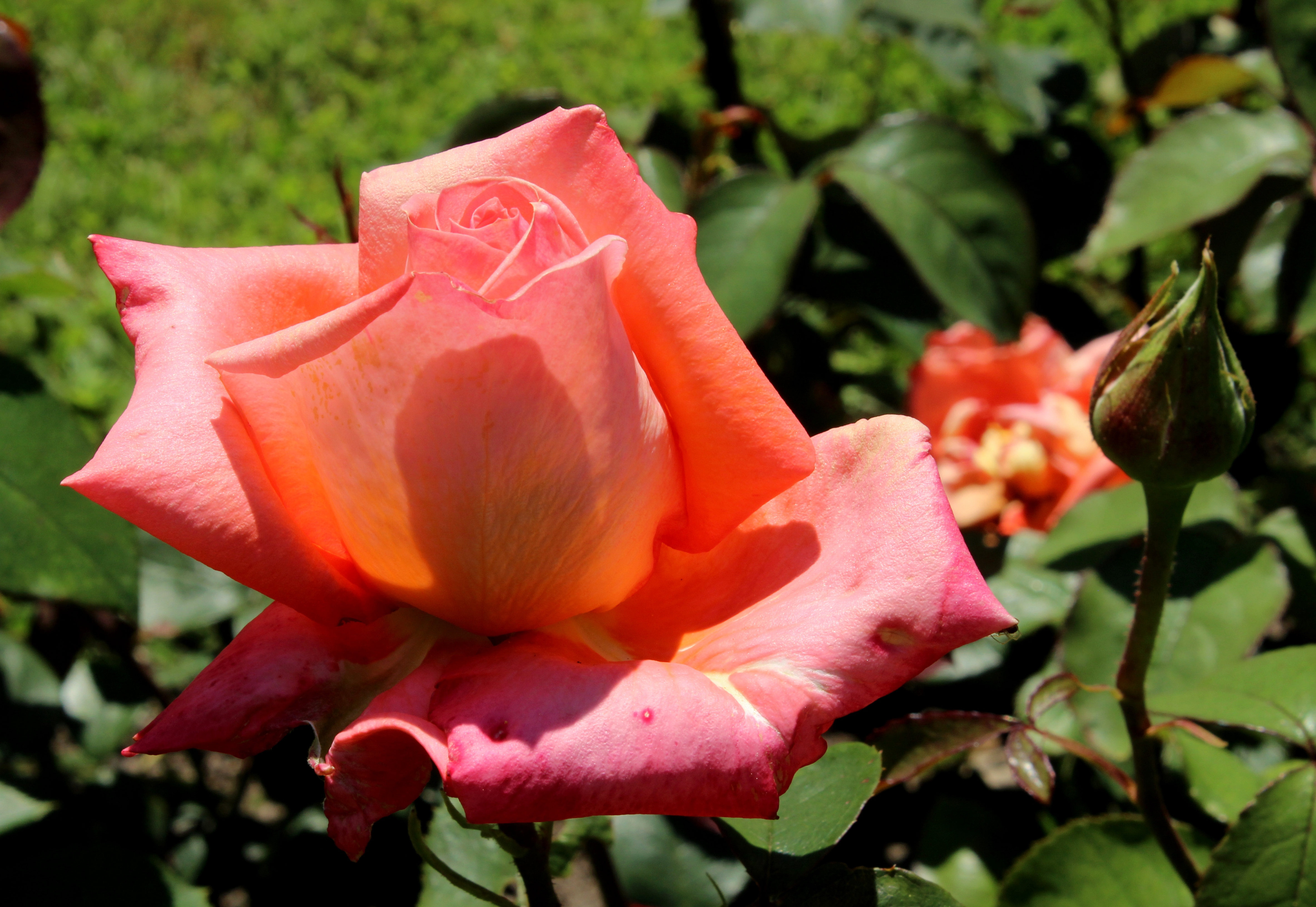 Rosa 'Dr. Waldheim' in the Rosarium Baden in the Doblhoffpark in Baden bei Wien. Identified by sign.